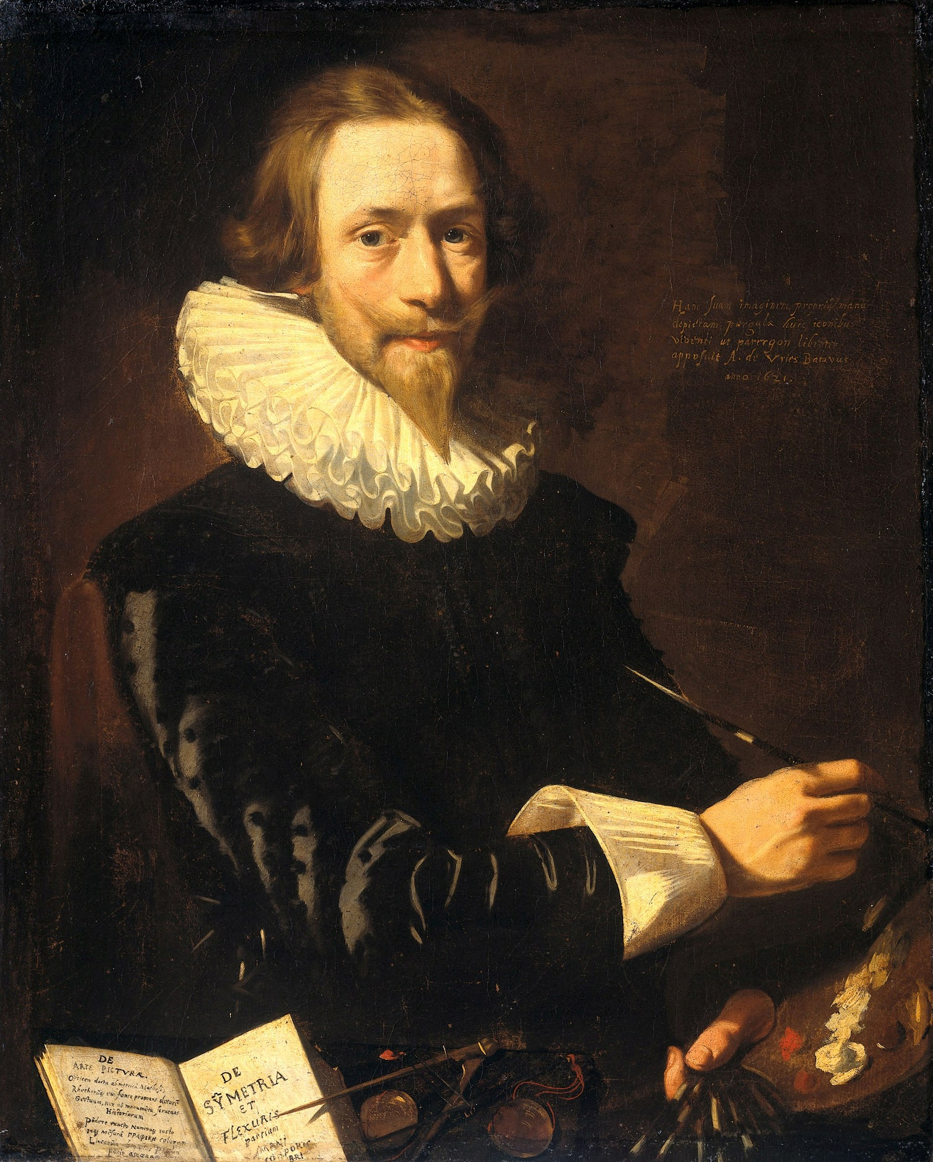 Self-portrait with paintbrush and palette. Created while he was on a trip to Italy.